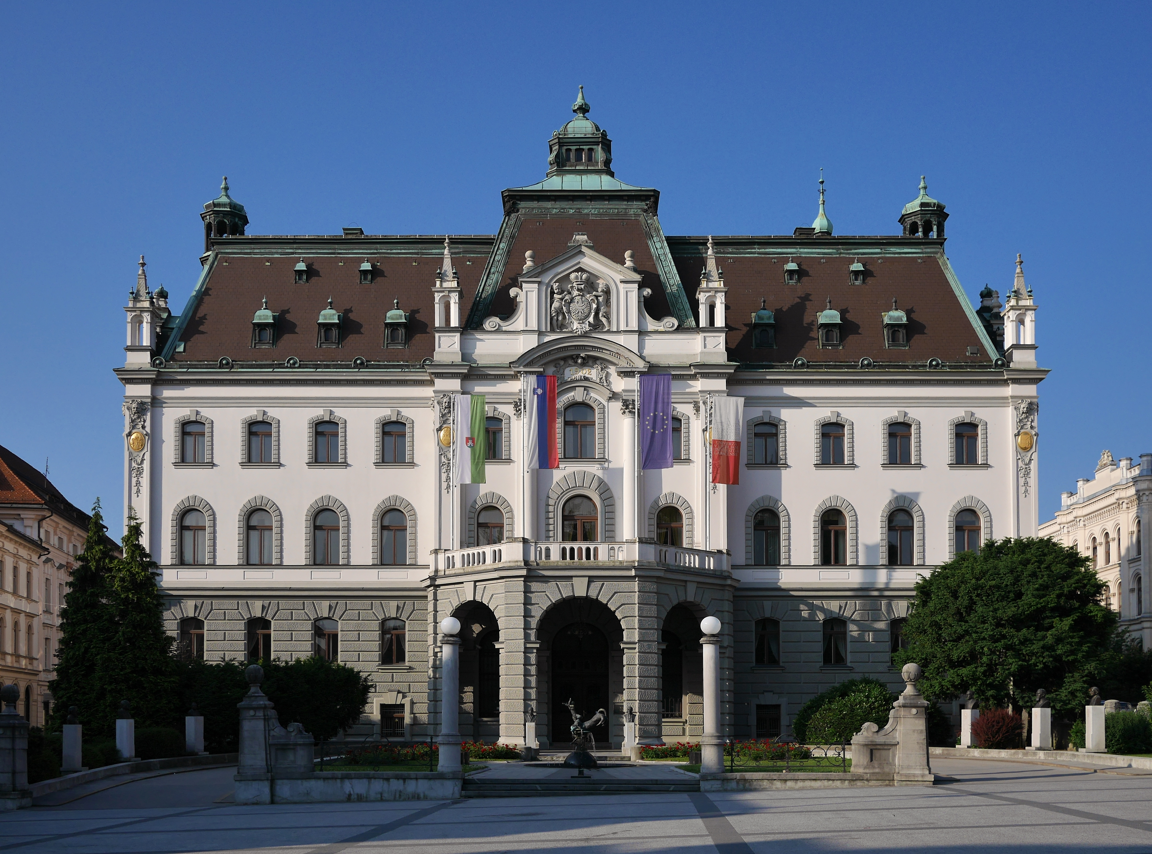 University of Ljubljana Palace, Slovenia. Seat of Rectorate.